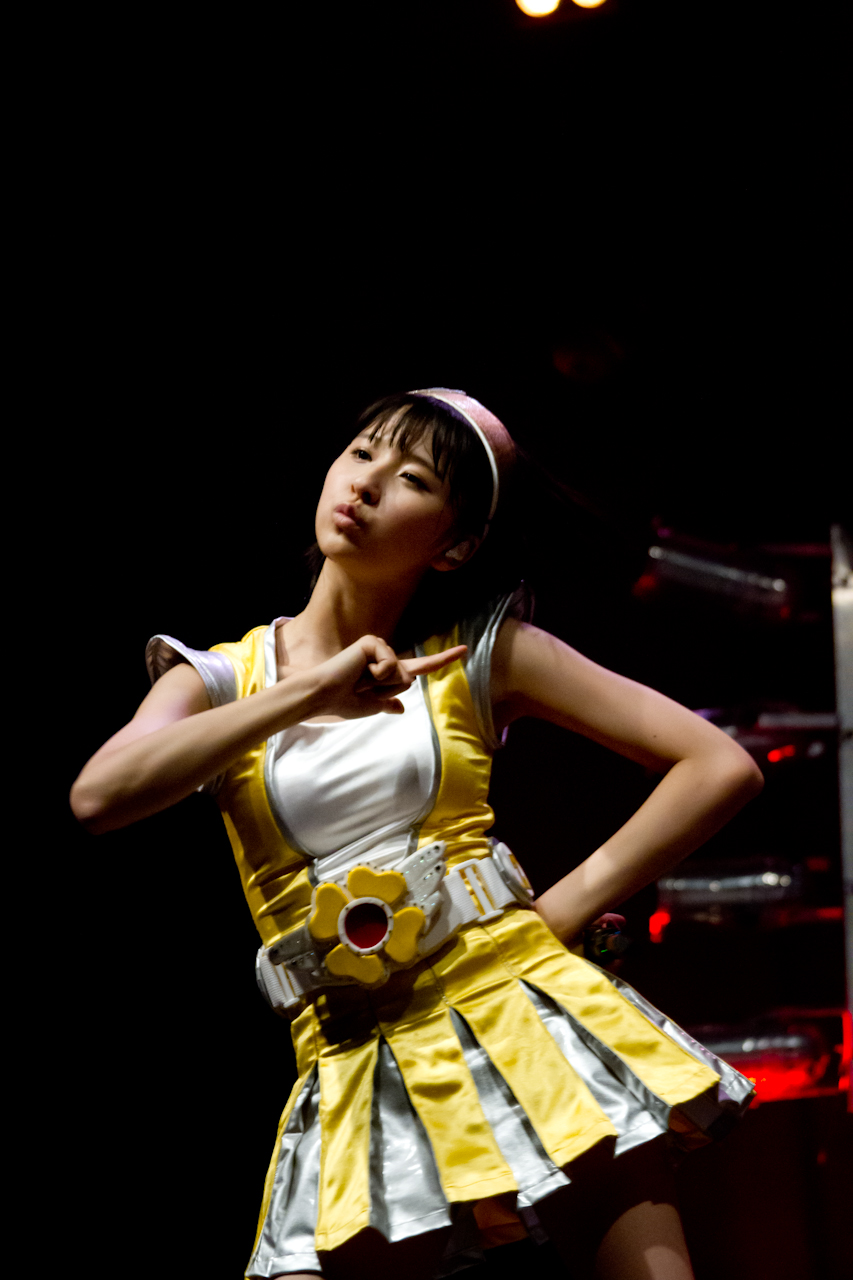 Japan Expo 13 - 2012 Cover pics by Dj ph All sets here : bit.ly/LHdWLq